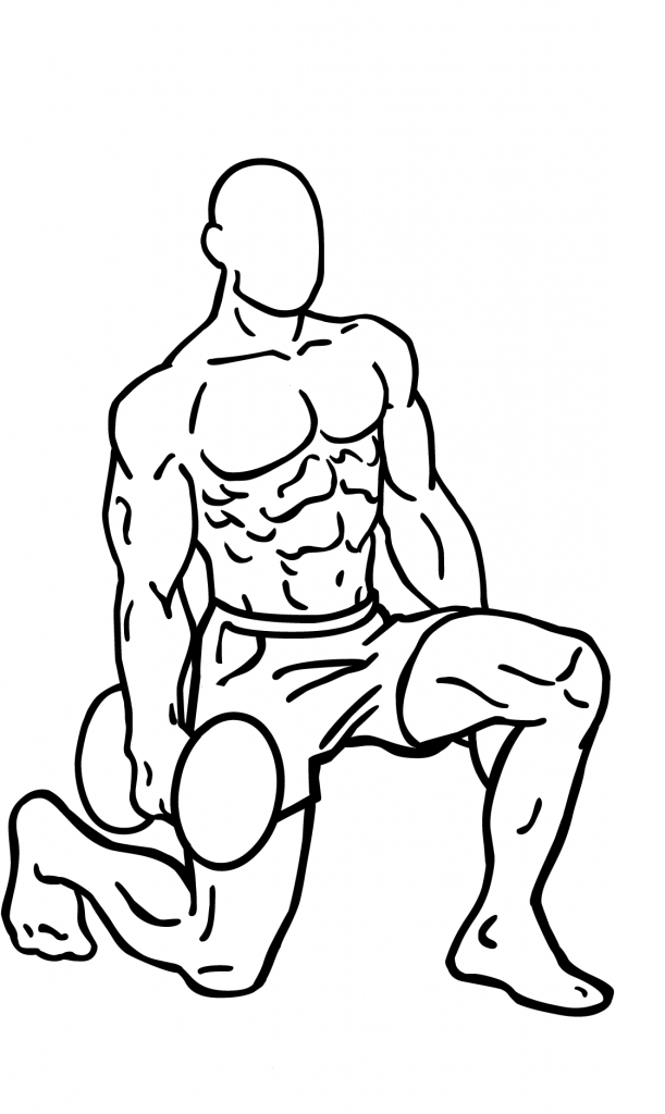 an exercise of hip